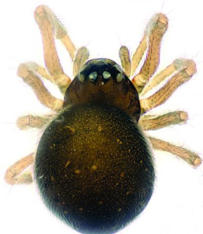 Mysmena wawuensis, dorsal view of female paratype - see also Fig. 1D in the paper.